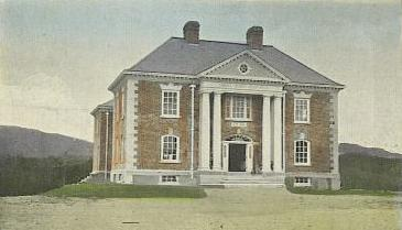 The Carroll County Courthouse, Ossipee, NH; from a 1921 postcard. Built in 1916, it was designed by architect Albert H. Dow, Sr. from Tuftonboro, New Hampshire. It is now the Ossipee Historical Society Museum.